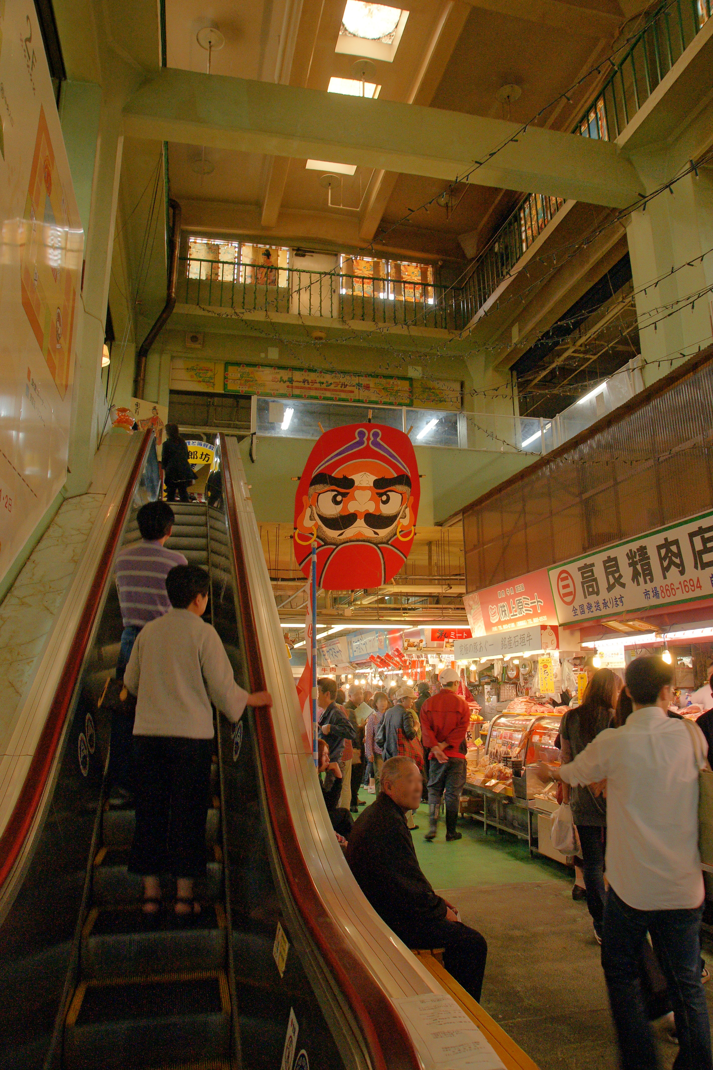 Makishi First Public Market in Naha, Okinawa prefecture, Japan